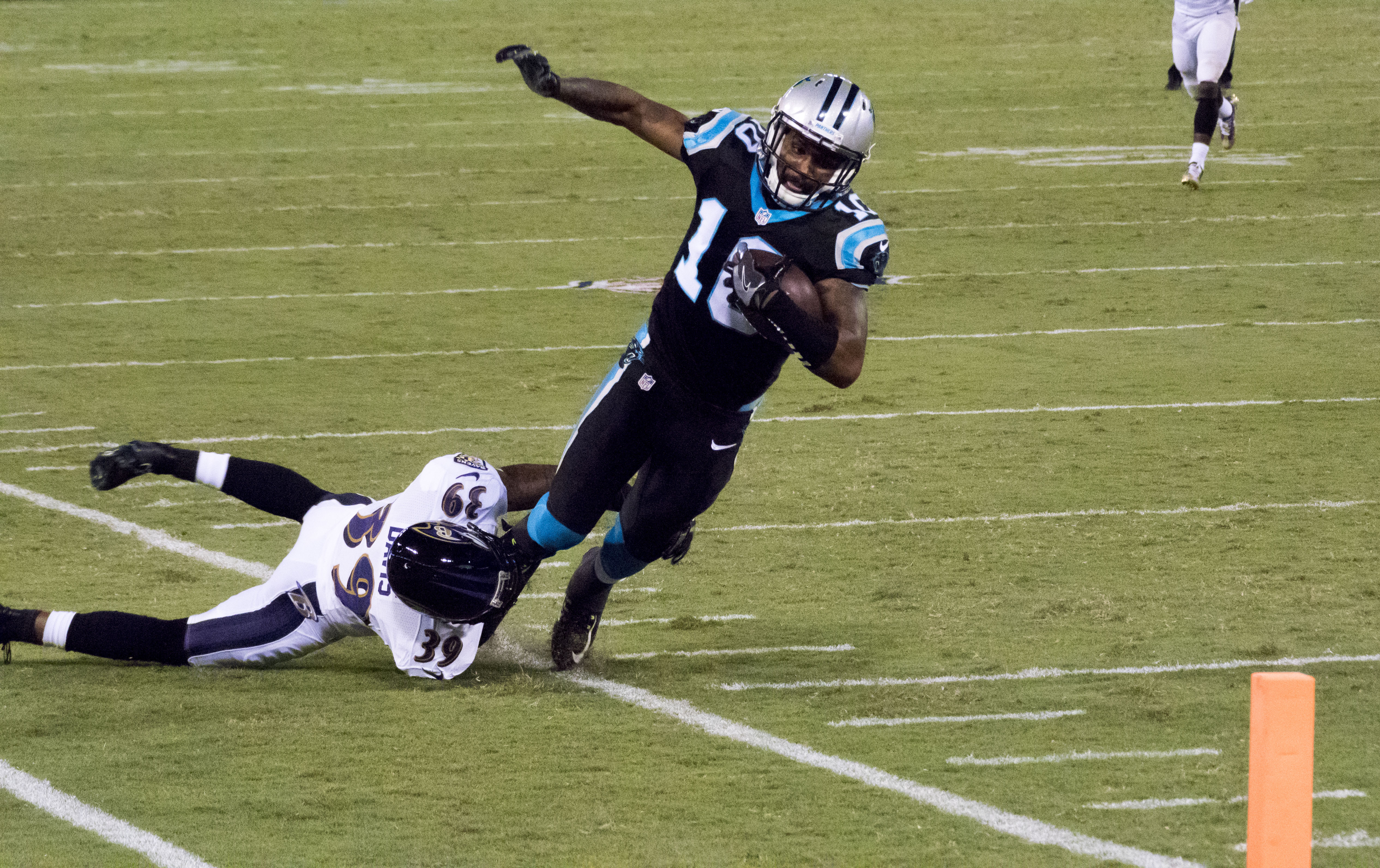 Panthers at Ravens 8/11/16, Corey Brown.